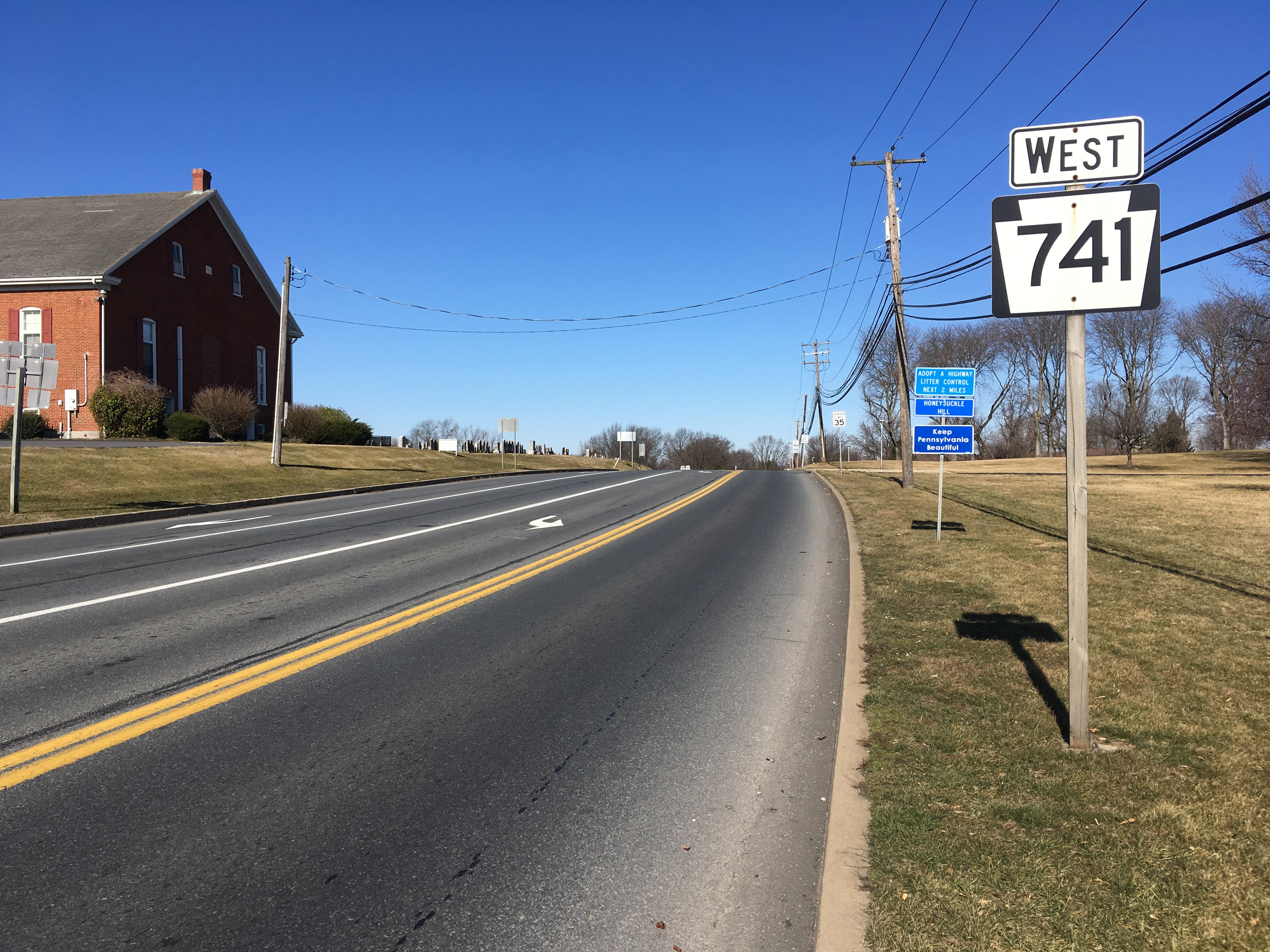 Westbound Pennsylvania Route 741 (Millersville Road) past the intersection with Pennsylvania Route 999 (Millersville Pike) in Millersville, Pennsylvania